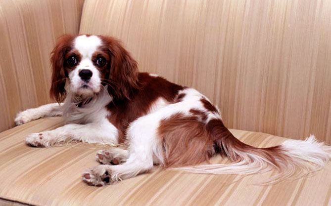 Photograph of Rex, a Cavalier King Charles Spaniel owned by Ronald and Nancy Reagan. Photographed on a couch in the White House.